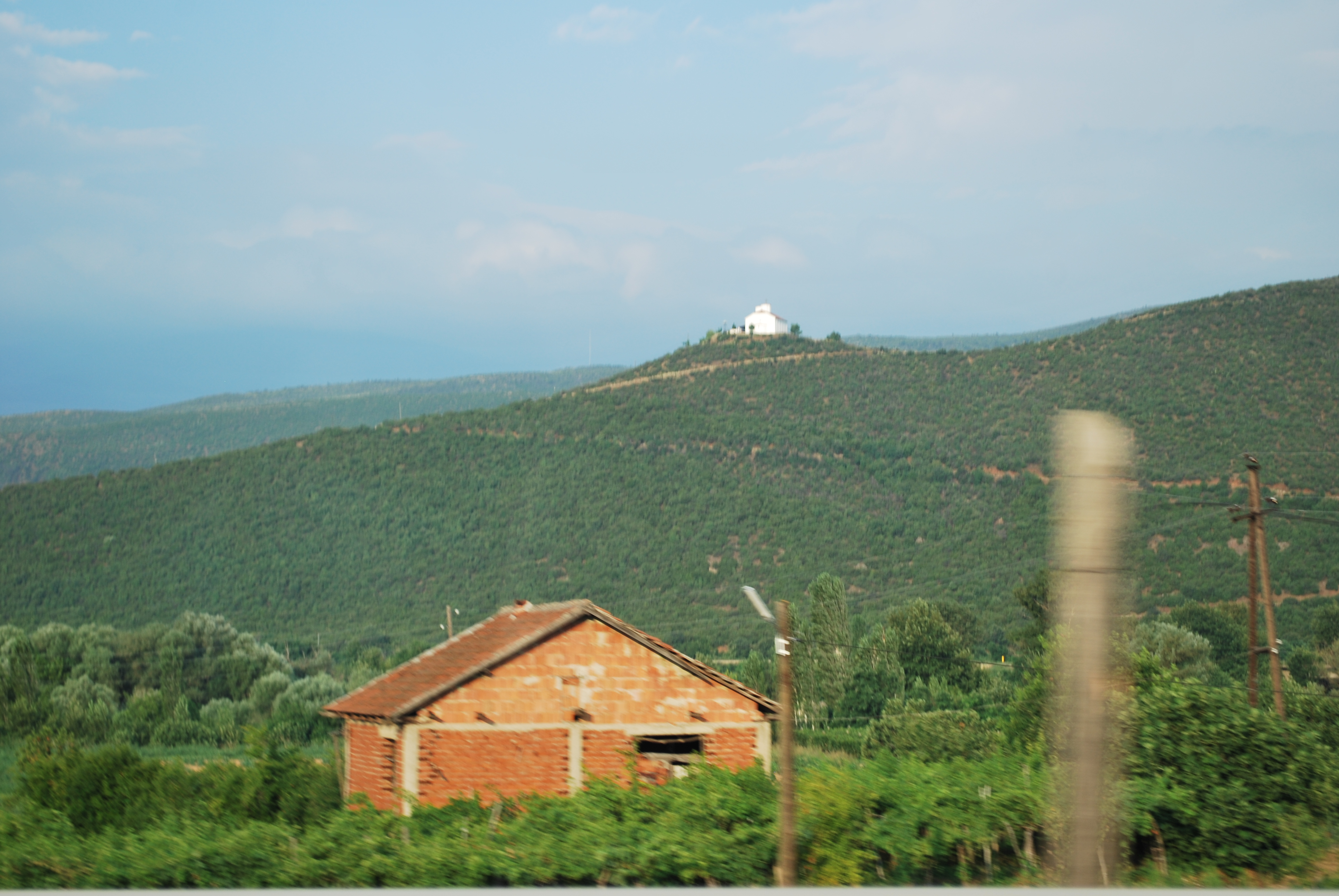 St. Elijah Church in Davidovo, Mcaedonia